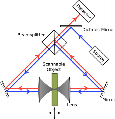 The optical alignment of 4Pi microscope